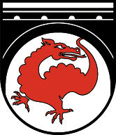 Source: "Fahnen-Gärtner GmbH, Mittersill" This file depicts a coat of arms. The composition of coats of arms are generally public domain with respect to copyright laws, and may be reproduced freely. This corresponds to the international traditional usage, and is explicitly stated in some national copyright laws. Some compositions, of more recent origin, may be copyrighted. This is not a valid license as such, being a "public domain" statement for the coat of arms definition only. It must be completed with the copyright tag associated to the picture creation. See Commons:Coats of arms for further information. Please note that this applies only to the coat of arms definition (composition / description). The representation of a coat of arms is an artistic creation, subject as such to copyright laws. Restriction of use - Legal notice: Most of the time, the usage of coats of arms is governed by legal restrictions, independent of the status of the depiction shown here. A coat of arms represents its owner. Though it can be freely represented, it cannot be appropriated, or used in such a way as to create a confusion with or a prejudice to its owner. Usage on Commons: Please provide licence information for the coat of arm representation, information for the author of the picture, and the source if not self-made work. This image is in the public domain according to Austrian copyright law because it is part of a law, ordinance or official decree issued by an Austrian federal or state authority, or because it is of predominantly official use. (§7 UrhG) To uploader: Please provide where the image was first published and who created it.